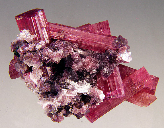 Tourmaline Locality: Jonas Mine, Conselheiro Pena, Doce valley, Minas Gerais, Southeast Region, Brazil (Locality at ) This is a FLOATER CLUSTER of classic, cranberry-red tourmaline crystals from THE most famous pocket of tourmaline ever hit in Brazil (at least, in most people's opinion), back some 30 years now. Every crystal is doubly-terminated and floating in a matrix of rich purply lepidolite - the classic association for the locale. So many we see, that have survived and come back around to the present market, are just singles. This one is complete and undamaged all around. It has the unique cranberry-red color that few tourmalines from other localities come close to. It has very high lustre and is also somewhat gemmier in person than it appears here (though not entirely transparent). A specimen like this, with not just the quality and color but also a matrixy aspect, is EXTREMELY uncommon. It is one of a very few such specimens I have seen on the market in the last decade 7 x 5 x 3 cm